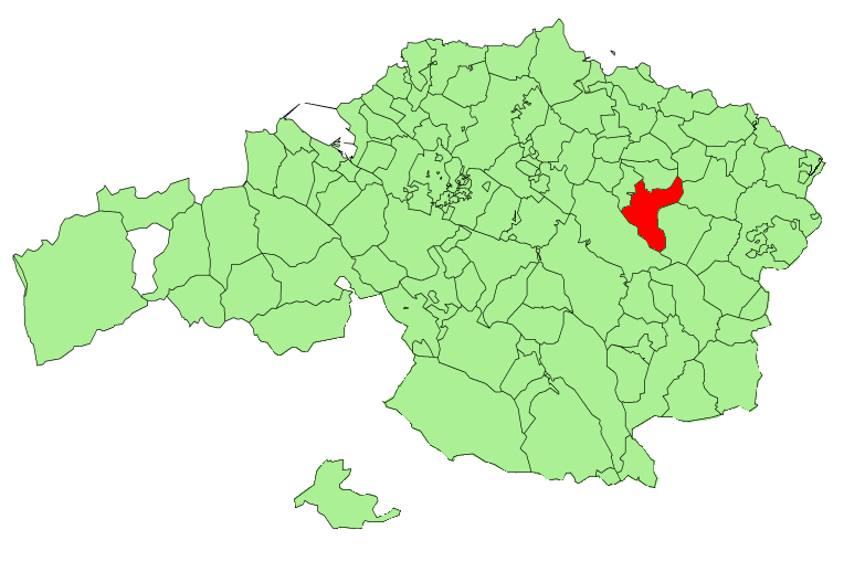 Mendata municipality in the province of Biscay